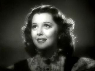 Cropped screenshot of Ann Rutherford from the film Dramatic School